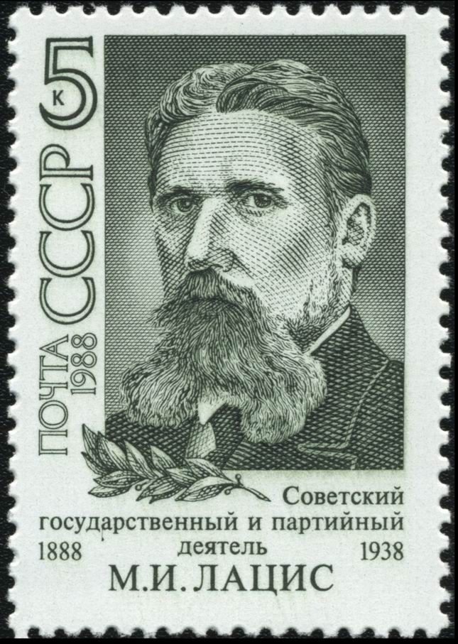 A USSR stamp